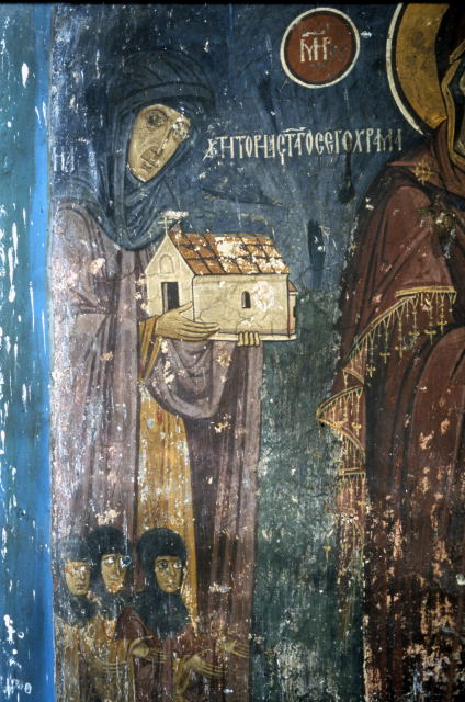 Fresco in monastery in Janjuša